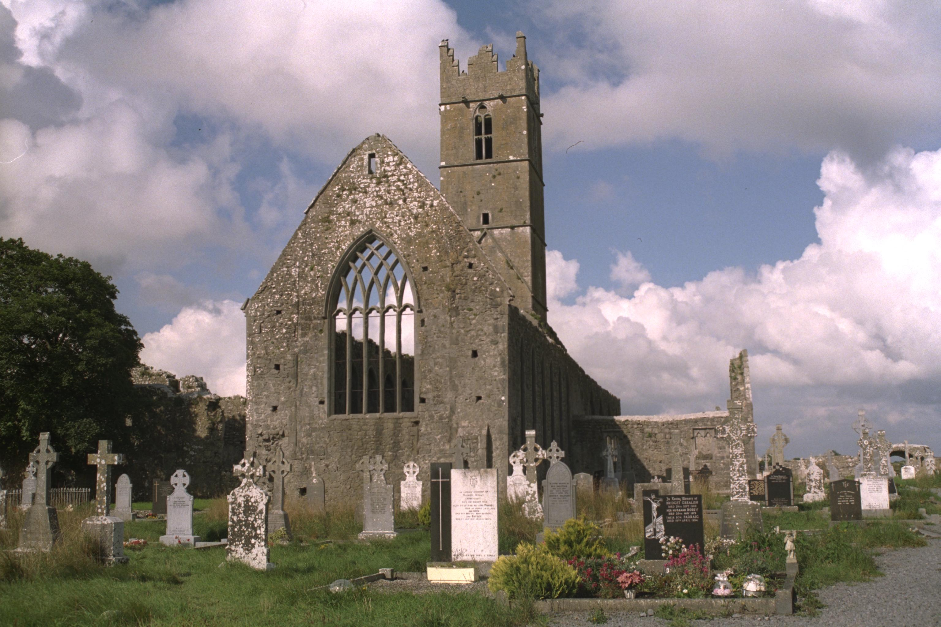 Claregalway Friary, County Galway, Ireland East front